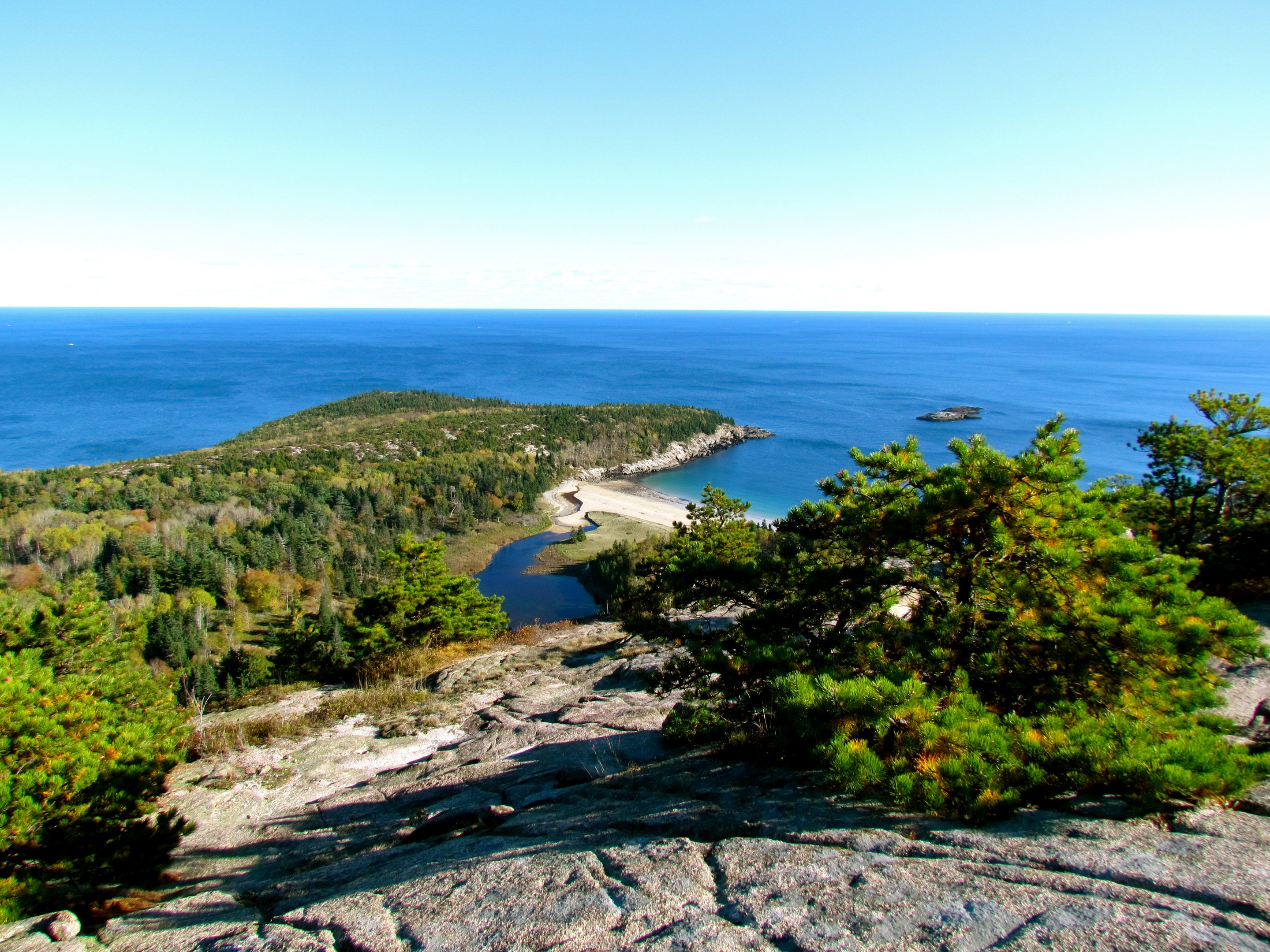 The Beehive